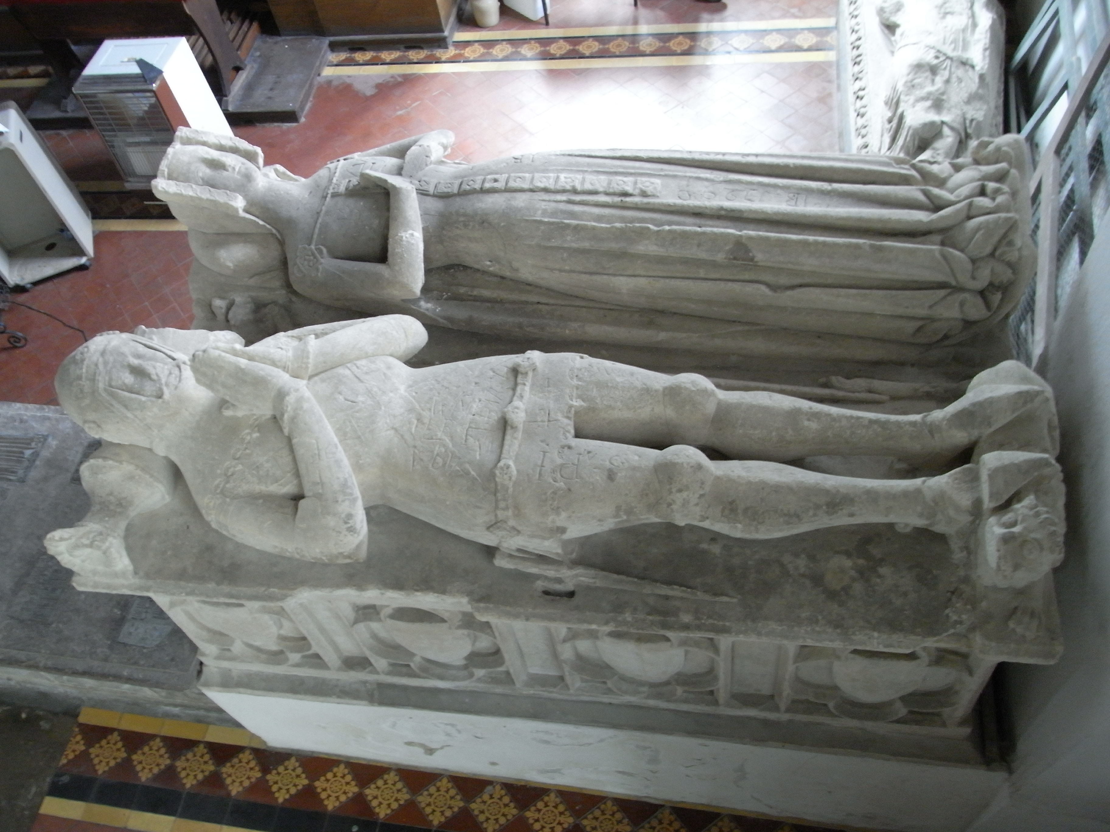 Effigies supposedly of Sir Ralph Willington (1385) and his wife formerly in the Umberleigh Chapel, removed thence c. 1800 to present position, Atherington Church, Devon, north side of chancel